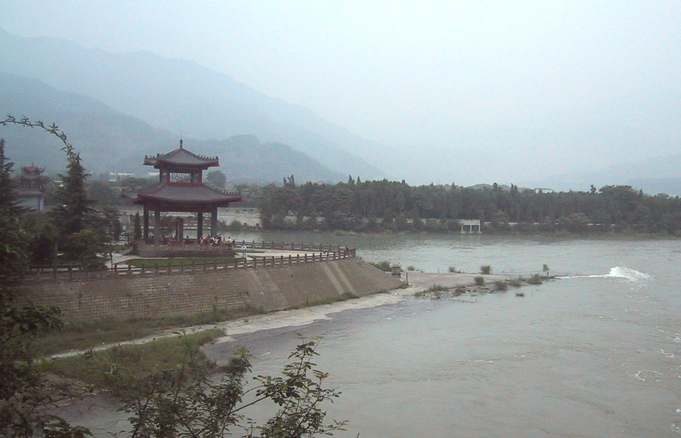 This shows the Dujiangyan Irrigation System west of Chengdu in Sichuan province, China.